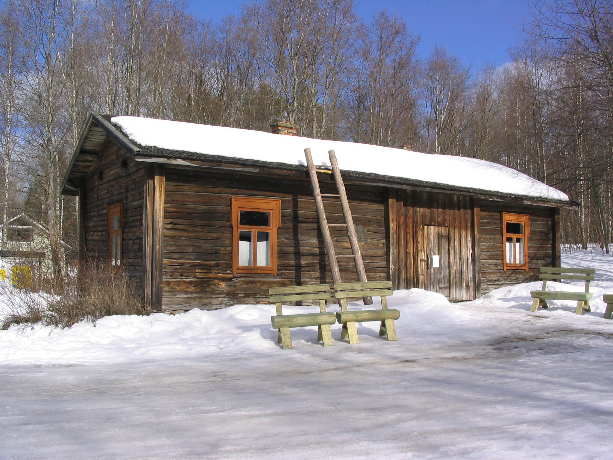 The birthplace Lepikon Torppa of the Finnish president Urho Kekkonen in Pielavesi, Finland.